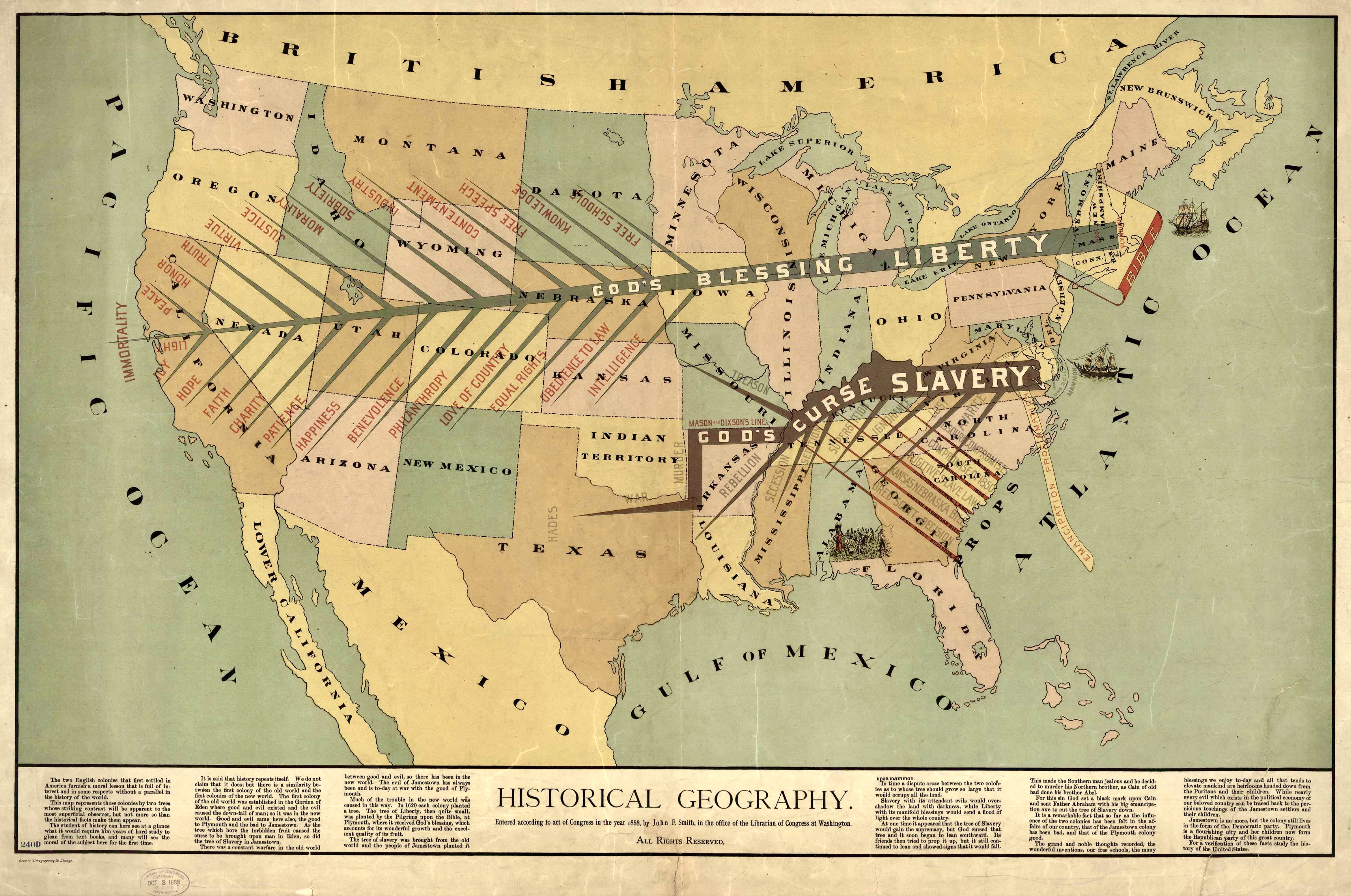 Maps for an emerging nation, created in 1888